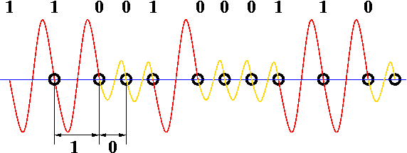 Resulting waveform when C64 is storing data on tape. Created with xfig.